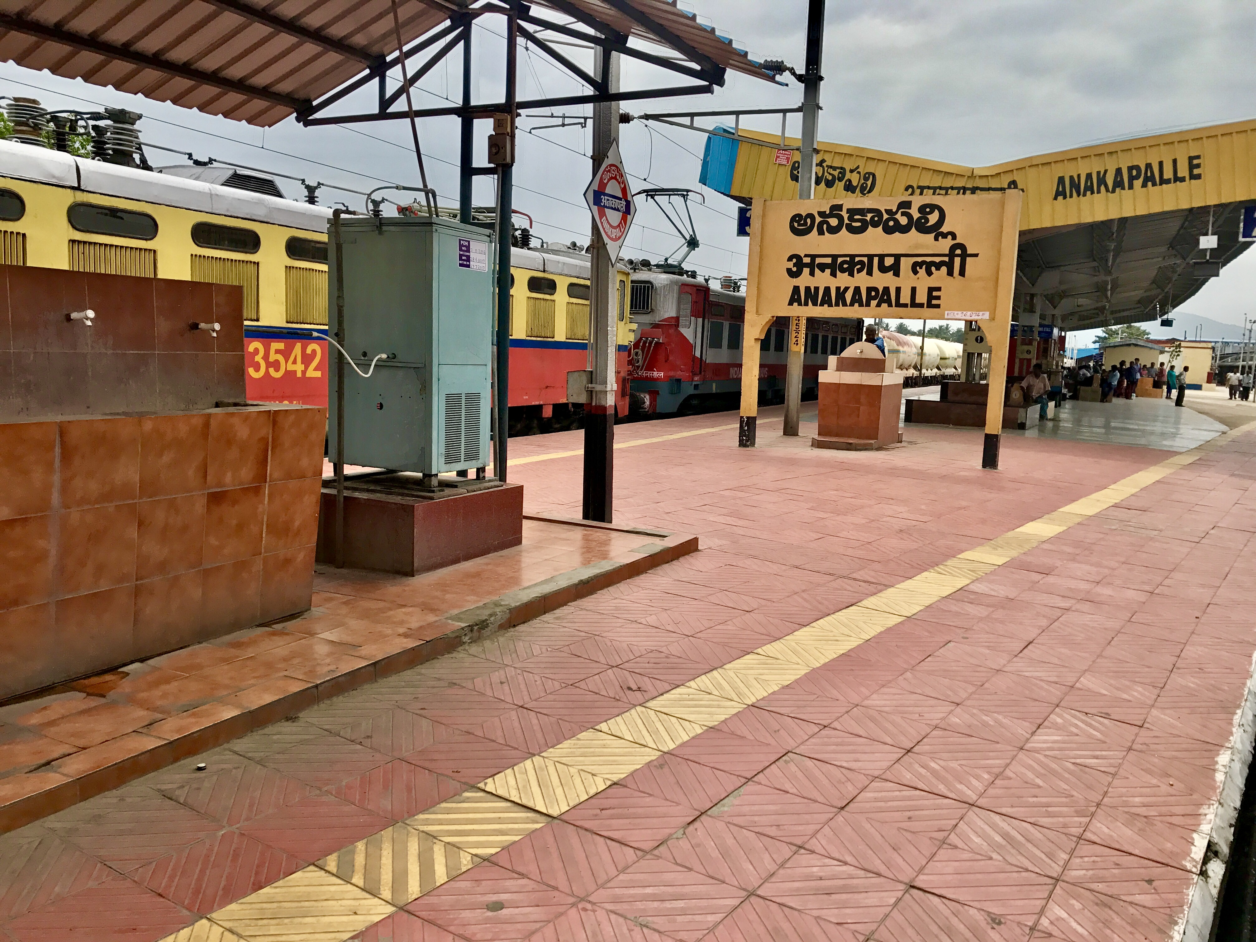 Anakapalle railway station board